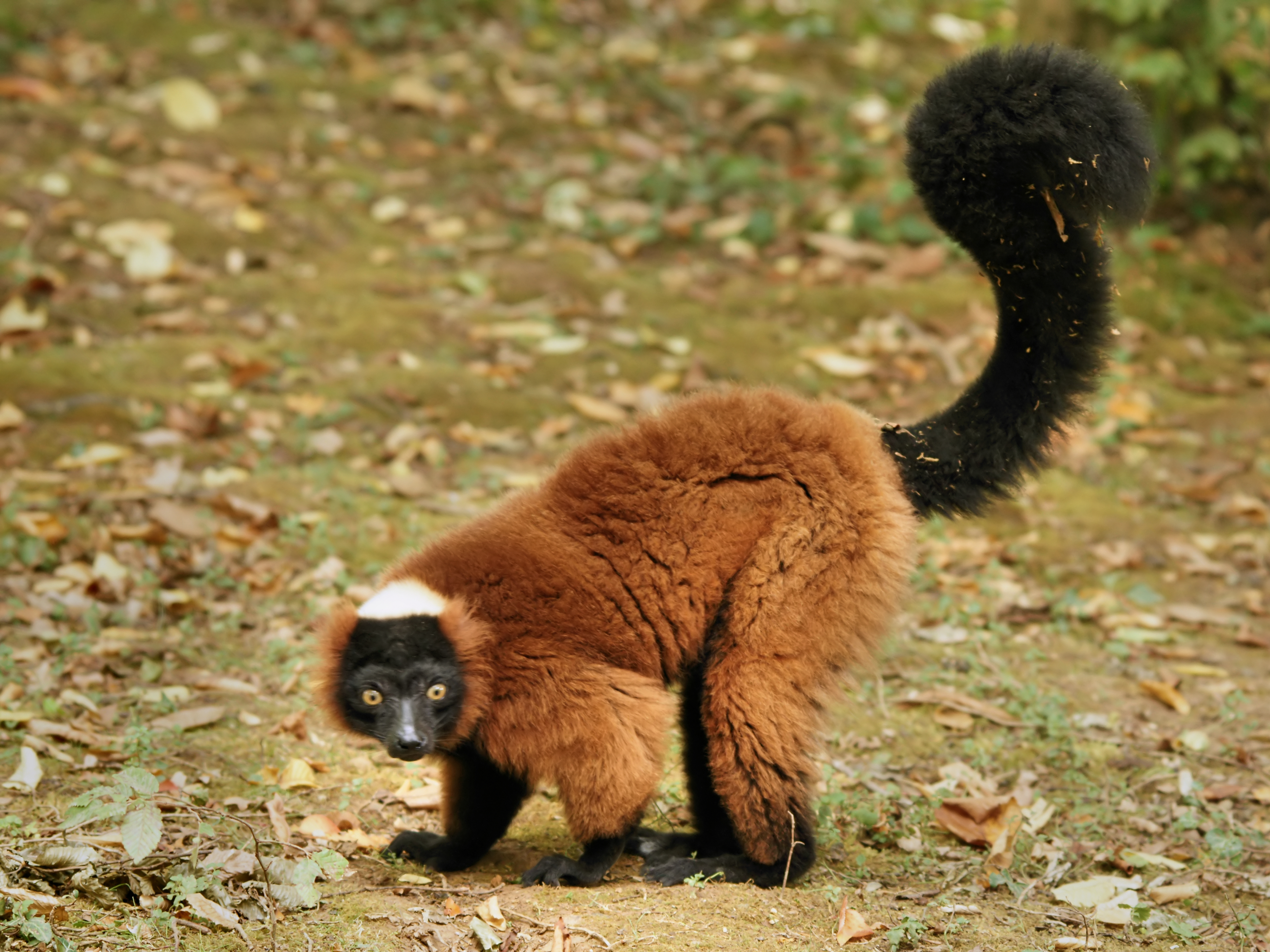 Red Ruffed Lemur at La Vallée de Singes, at Romagne (Vienne, Poitou-Charentes), France.